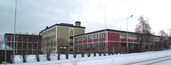 Moheia upper secondary (videregående) school, Mo i Rana.